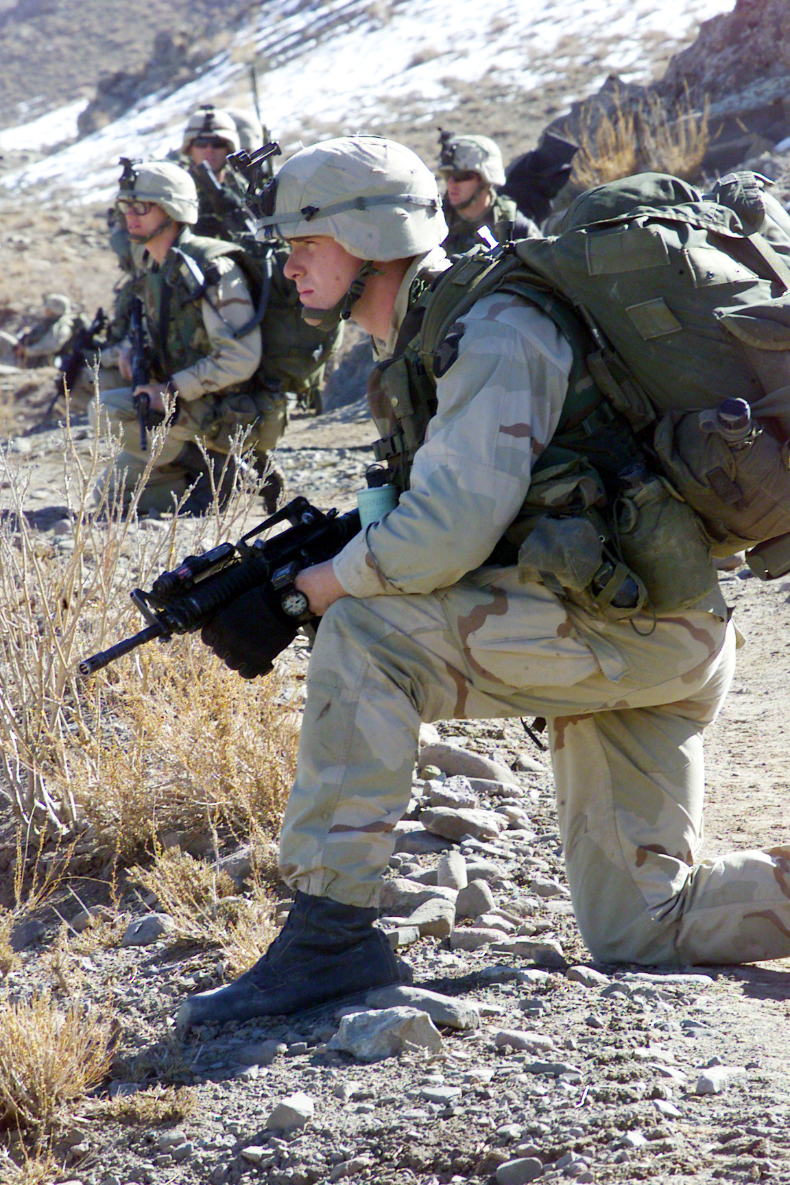 A Soldier with 1st Battalion, 187th Infantry Regiment, 101st Airborne Division (Air Assault), takes a knee and watches for enemy movement during a pause in a road march during Operation Anaconda. (U.S. Army photo/Spc. David Marck Jr.)